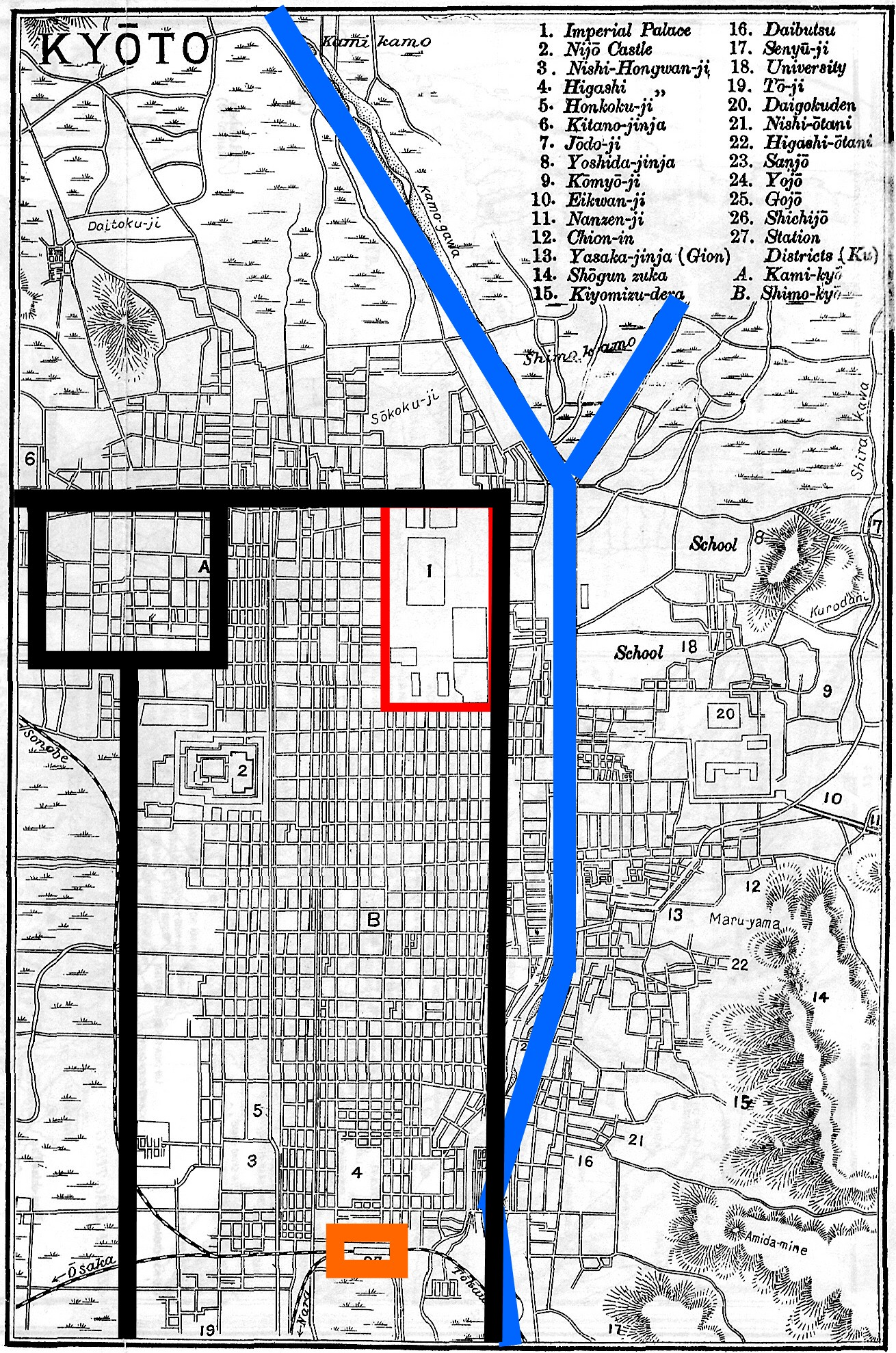 Kyoto 1910 with layout of old Heian capital using a map of E.Papinot 1910